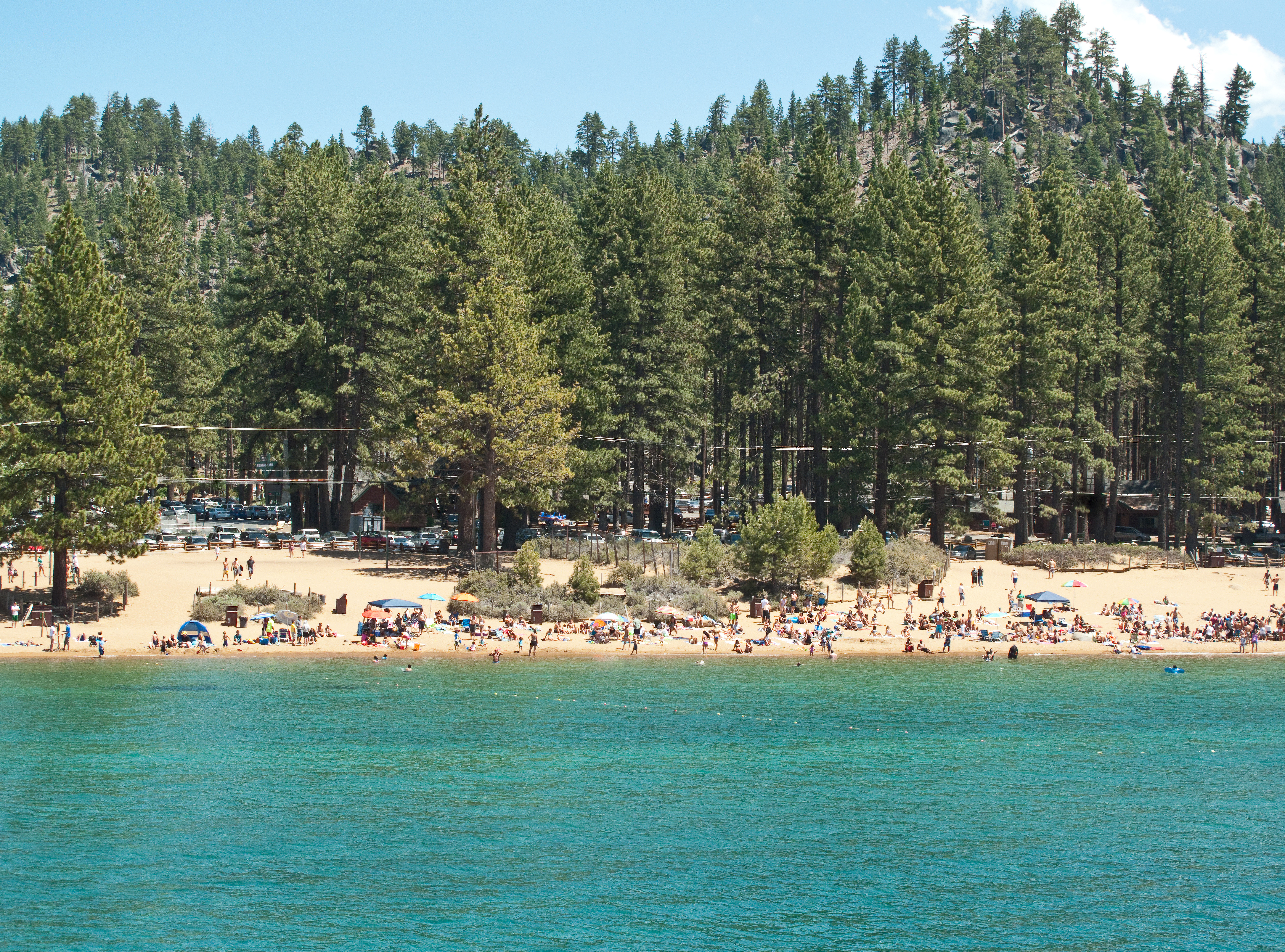 People on the beach at Zephyr Cove, on the Nevada (eastern) side of Lake Tahoe.